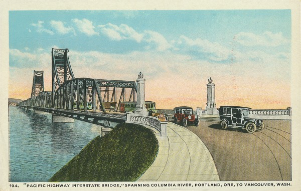 Penny Postcard: Interstate 5 Bridge, ca.1920. Penny Postcard, ca.1920, "'Pacific Highway Interstate Bridge', Spanning Columbia River, Portland, Ore., to Vancouver, Wash.". Caption on back reads: "New Interstate Bridge. This new Interstate Bridge, spanning the Columbia River, connecting Portland, Oregon and Vancouver, Washington, is now being constructed. The very latest type of bridges, which is the greatest of bridge engineering at this time, is one of the interesting features of the New Pacific Highway.". Published by Lipschuetz & Katz, Portland, Oregon. Card #194. In the private collection of Lyn Topinka.